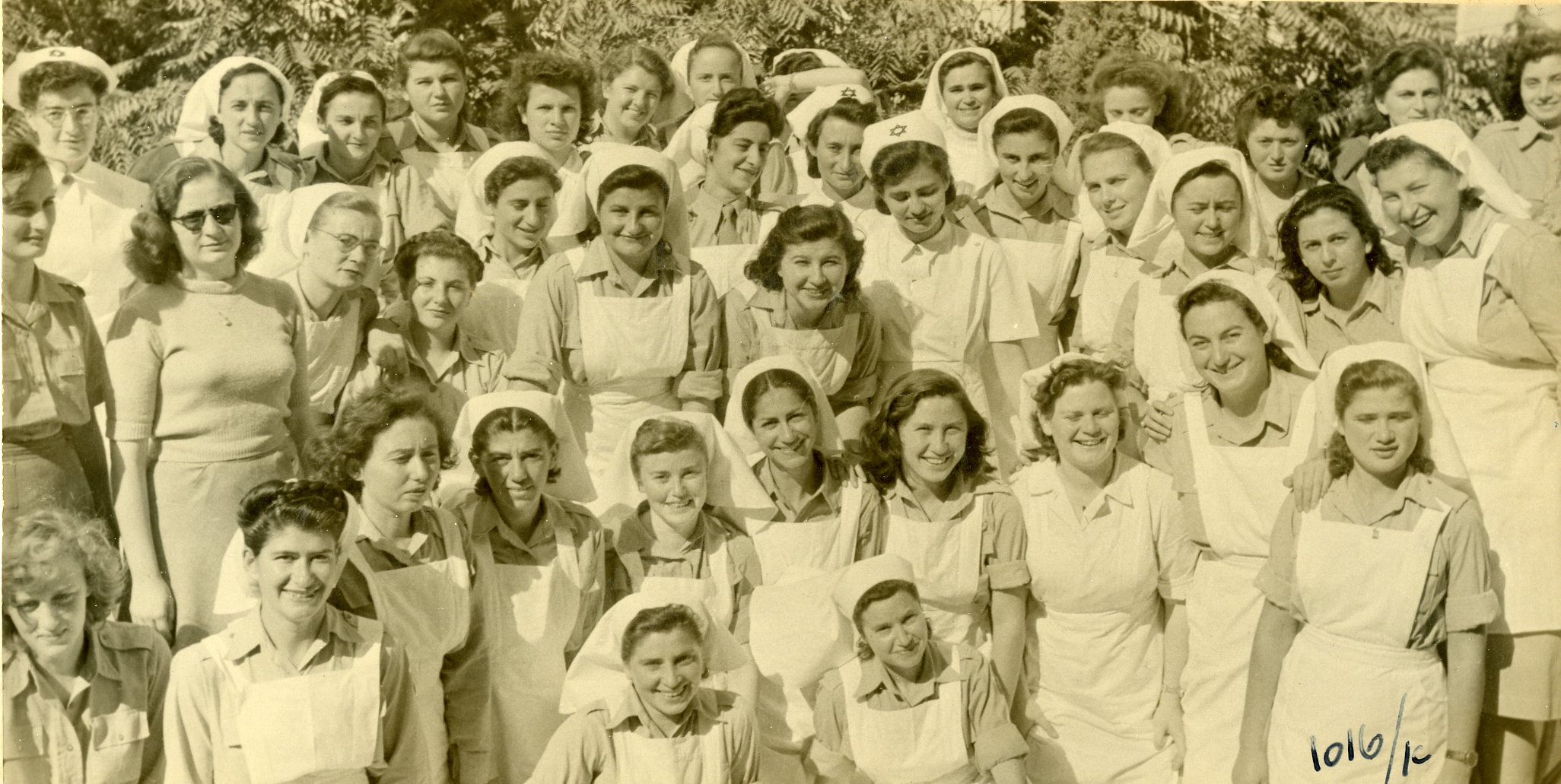 Hadassah School of Nursing in Jerusalem